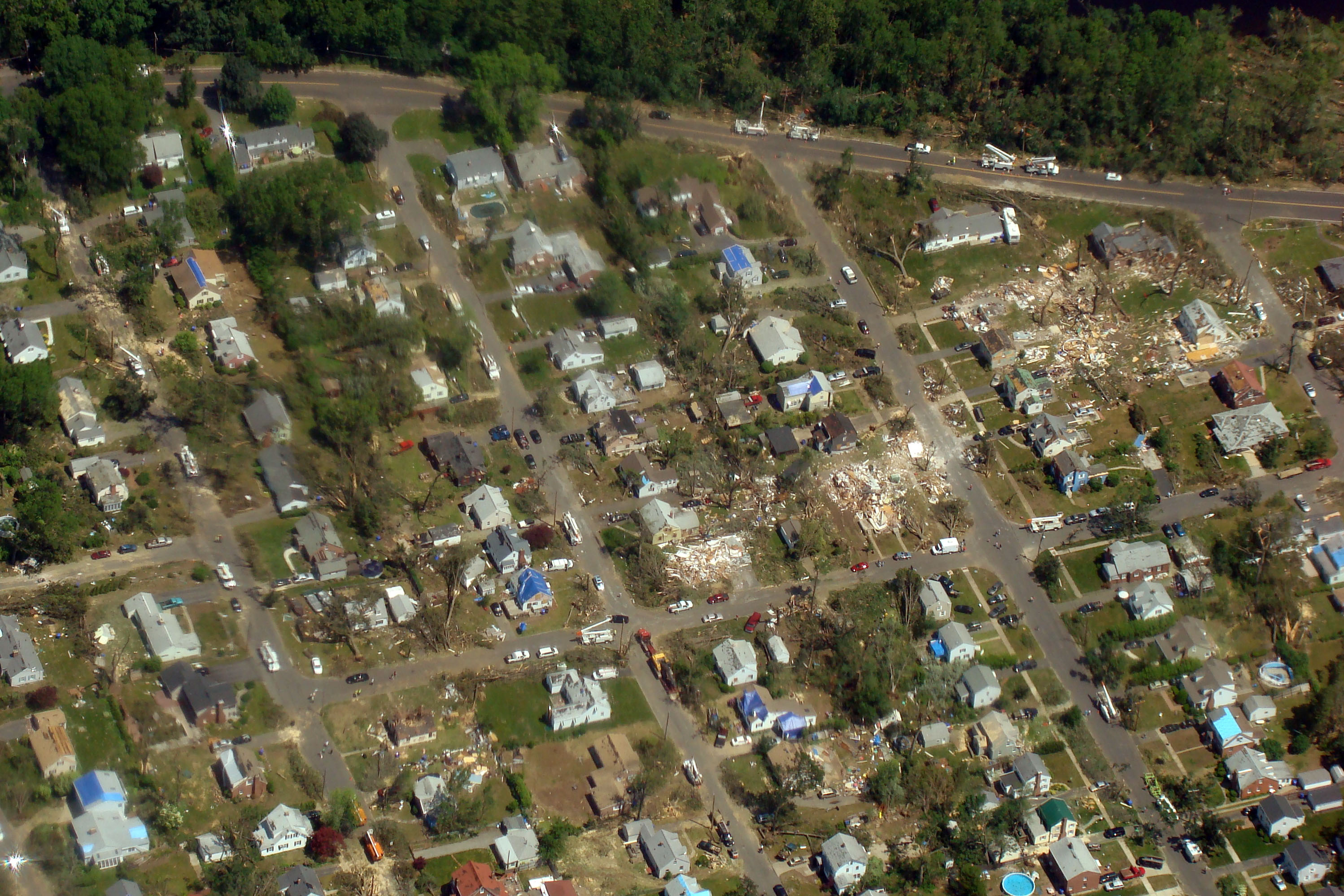 Damage to homes in western Massachusetts from a June 1, 2011 tornado.